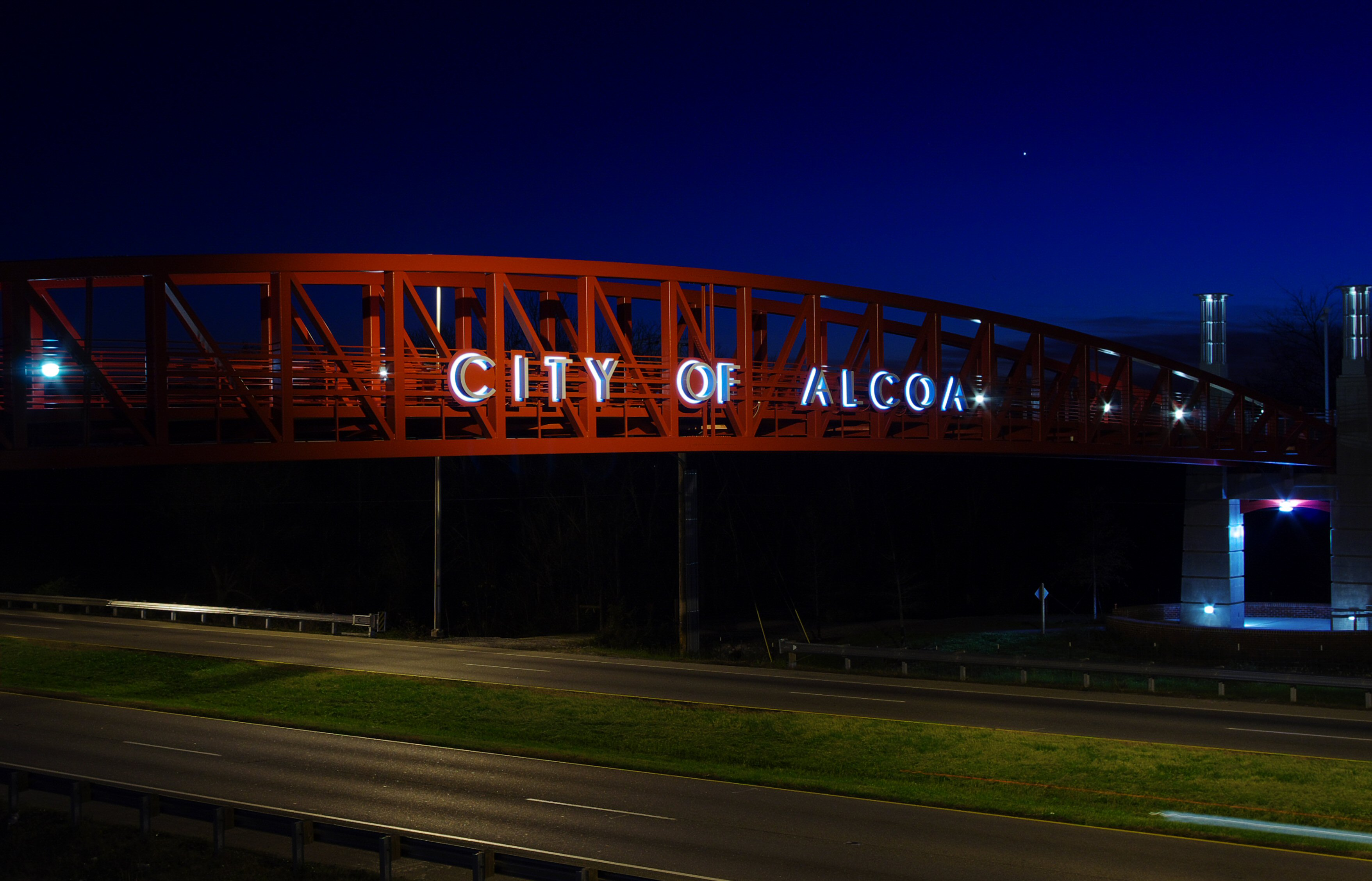 Pedestrian bridge over Alcoa Highway (part of U.S. Route 129) in Alcoa, Tennessee, United States.